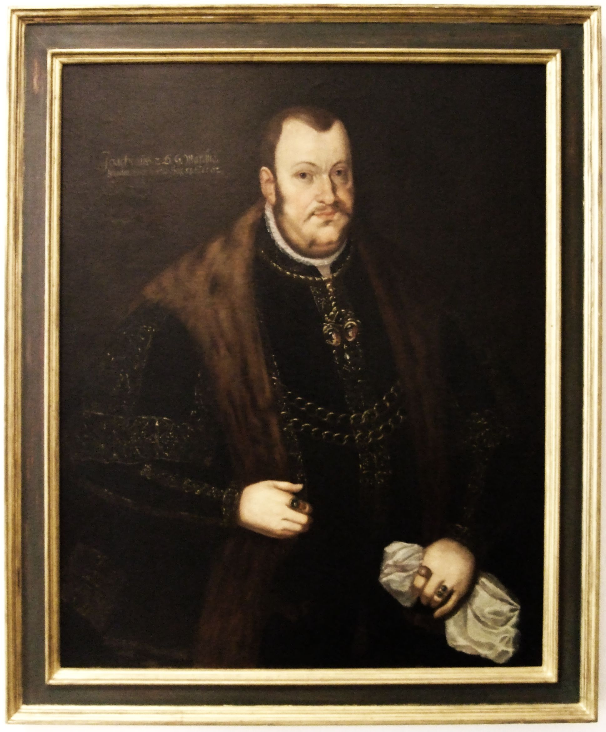 Joachim II Hector, Elector of Brandenburg.